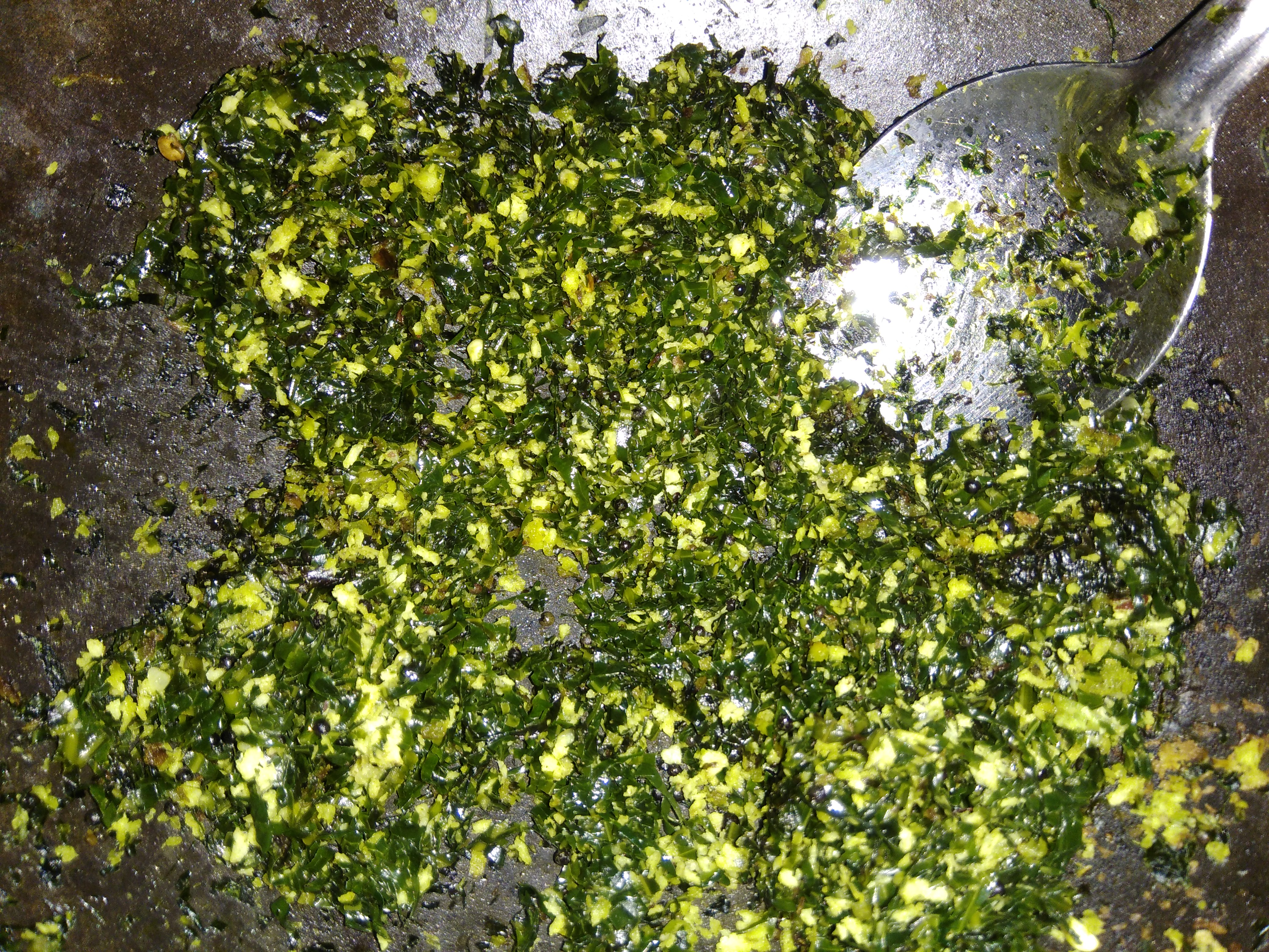 chayamansa leaf thoran from thrissur, kerala